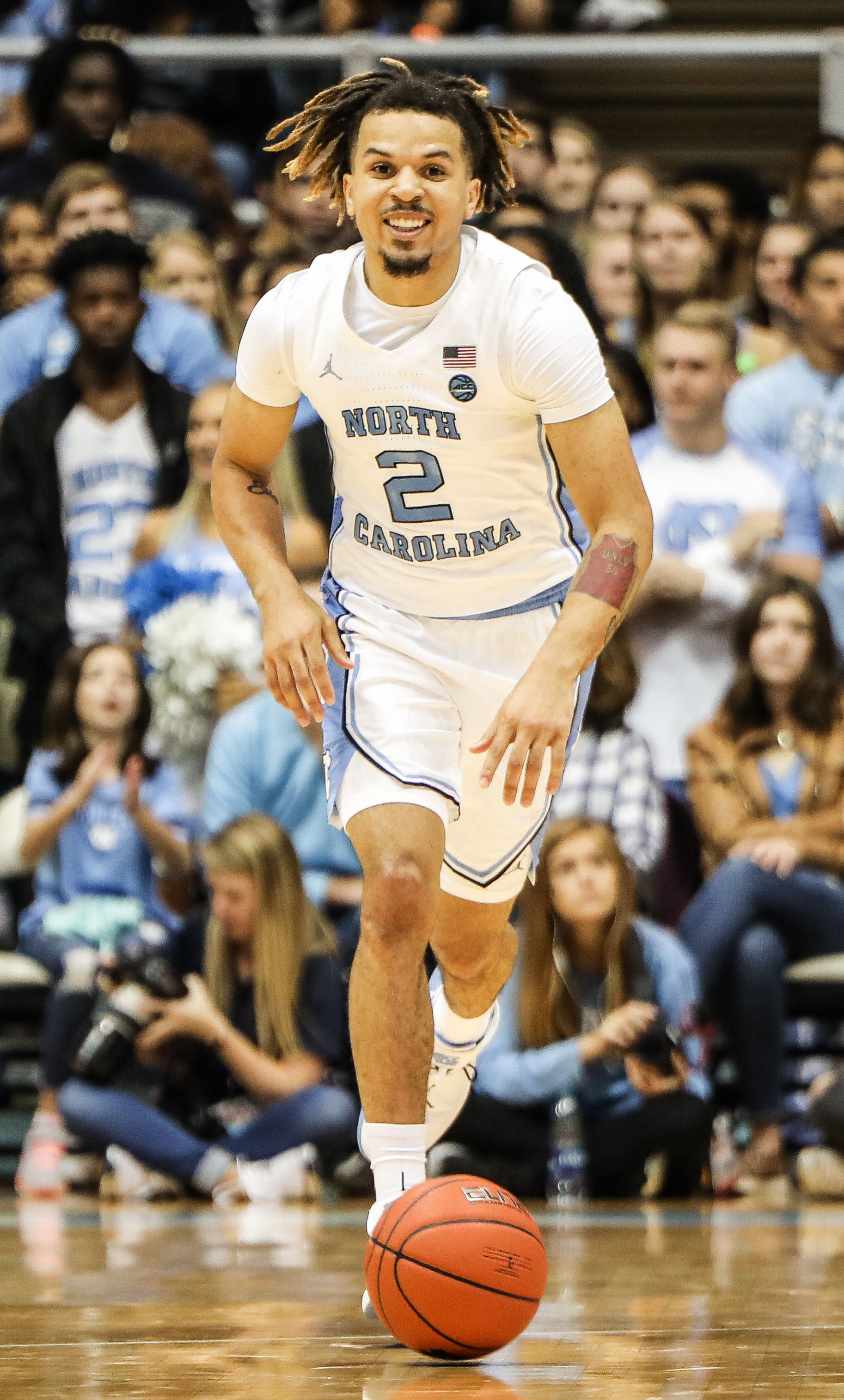 Cole Anthony by Keenan Hairston